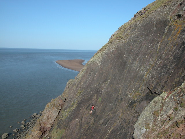 Exmoor. Hurlstone Point. The climber is on Coastguard Wall situated below the old Coastguard Lookout. Selworthy Sands can be seen in the distance.